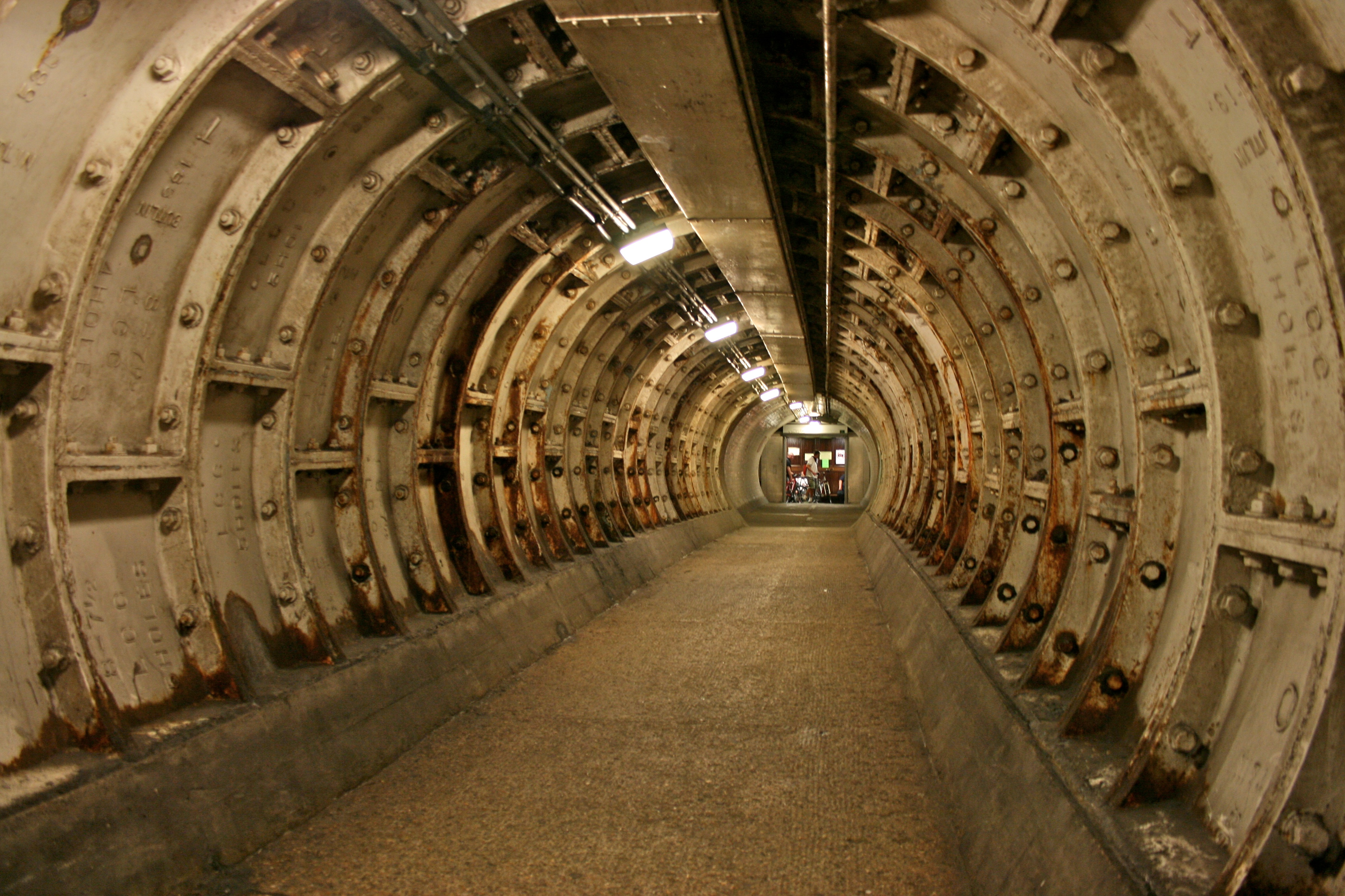 The Greenwich foot tunnel, London. The WWII repair.